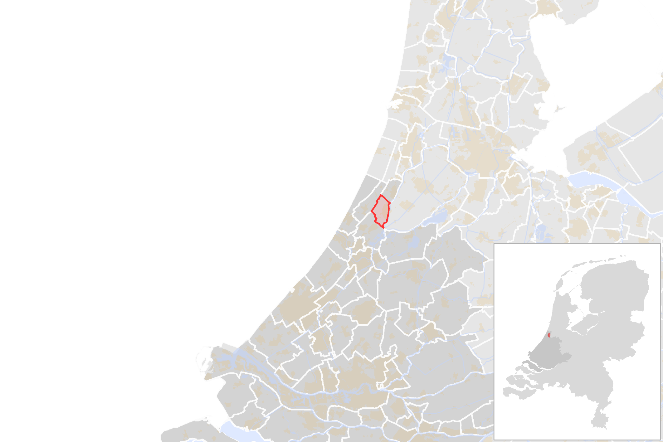 Locator map showing municipality boundary of one of the 390 Dutch municipalities (as of 2016)